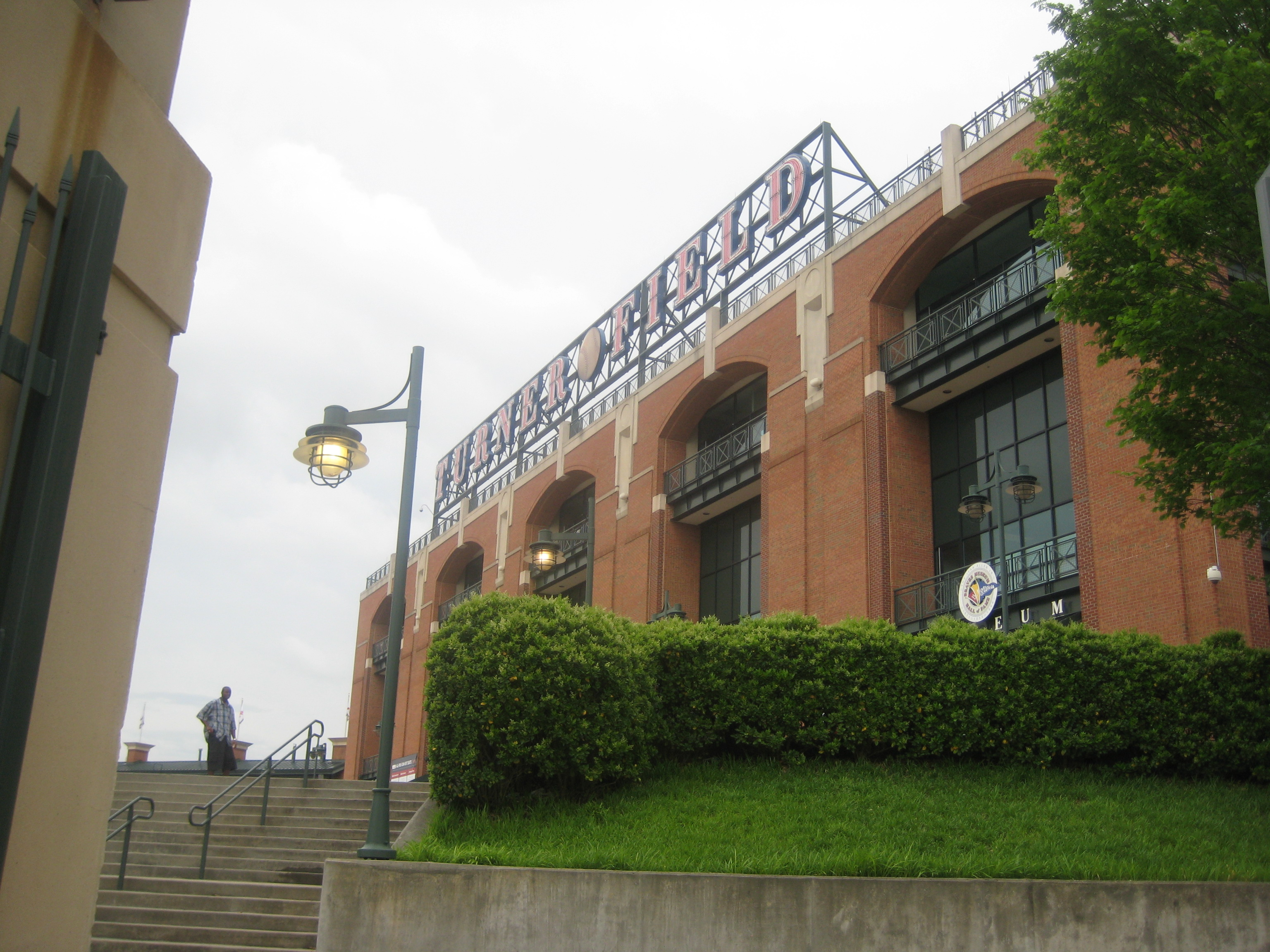 Turner Field 19:26, 7 July 2008 . . Steviedpeele . . 3,072×2,304 (1.67 MB)